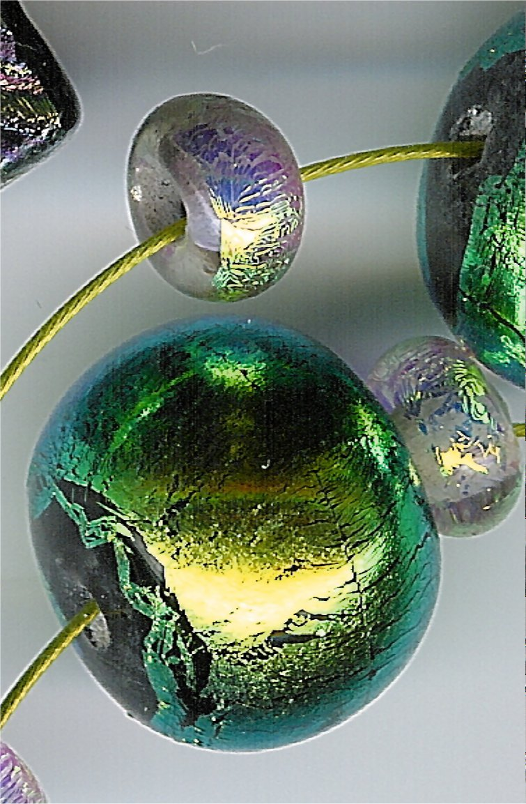 Dichroic Lampwork beads. Main bead 10mm. On January 27th, 2006, I, pschemp created this picture by putting a few of my dichroic beads on my HP scanner and scanning them at 1200 dpi. The process took apporximatley 2 minutes and 3.14159 seconds. Then, the image was transferred via USB cable to my Dell Inspirion 4500 and appeared in Paint Shop Pro. Paint Shop Pro was used to sharpen the image since my scanner puts funny lines on scans at this resolution. The shadows seen on the picture are due to the fact that the object in question was not flat, but three dimensional; thus the scanner lid could not be closed all the way to block out ambient light entirely. The bead in question was then made into a necklace, however the entire operation was carried out while I wore blue jeans, socks with a red stripe, flowered knickers, a brassiere and a pink T-shirt made of 100% cotton knit. My hair was put up in a bun and I was wearing silver earrings, but no makeup. The ambient temperature was 70 degrees Fahrenheit and the relative humidity 35% in my room at the time. Outside, it was a chilly 18 degrees with wind gusts of 20-25 mph and clear skies.